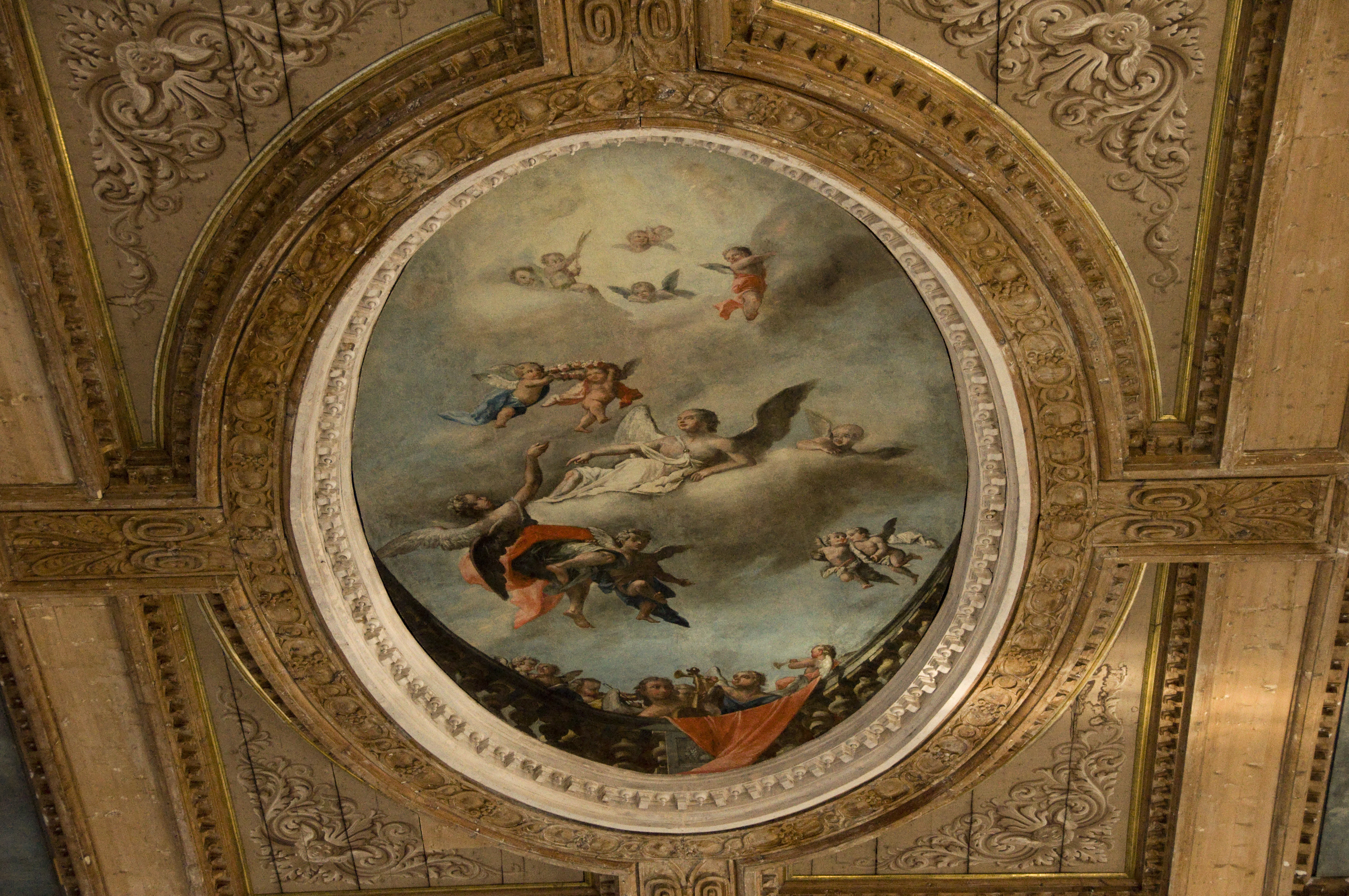 Ceiling of St. George's church in Piran, Slovenia. The Glory of St. George in a wooden frame.